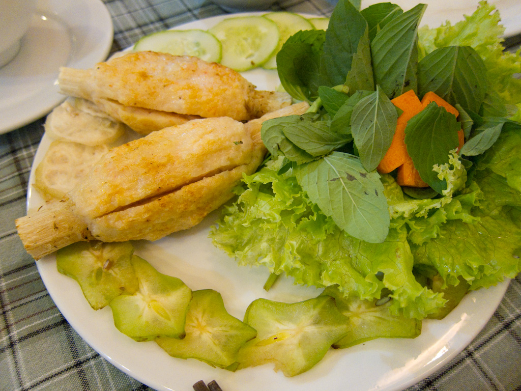 Ground shrimp on sugar cane